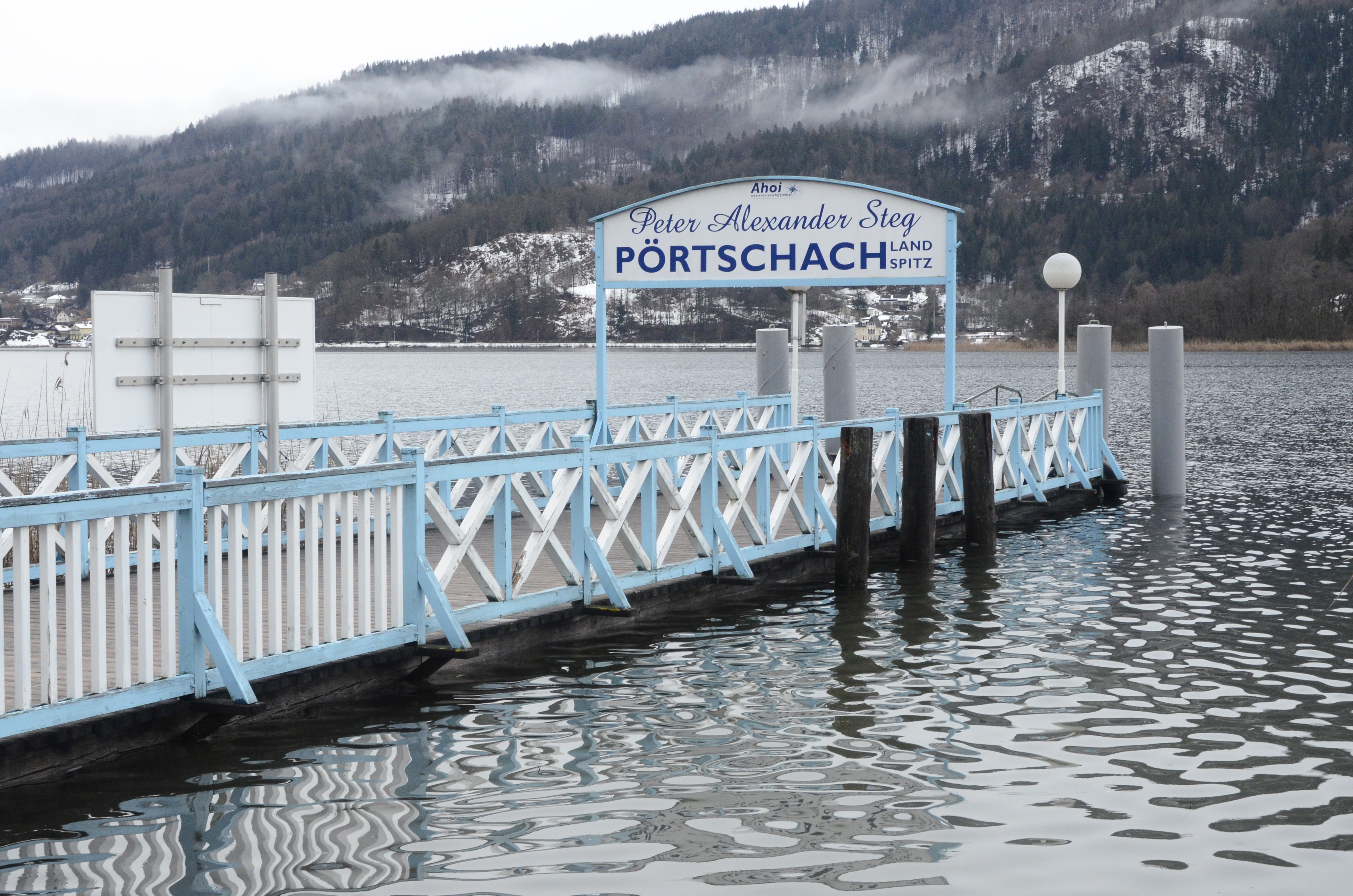 Ship landing stage on the Landspitz of the peninsula, municipality Poertschach on the Lake Woerth, district Klagenfurt Land, Carinthia, Austria, EU